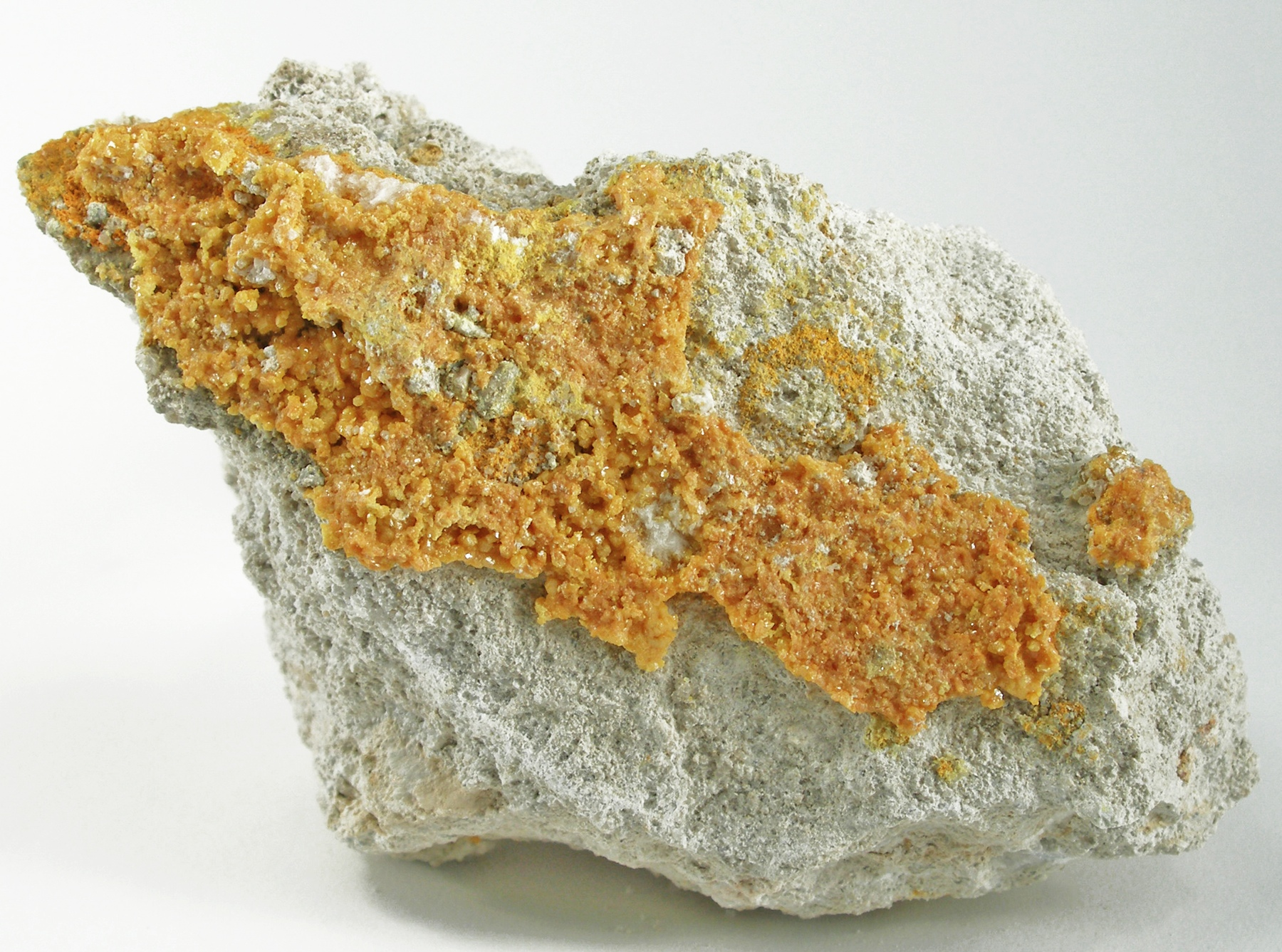 Kleinite Locality: McDermitt Mine (Cordero Mine; Old Cordero Mine), Opalite District, Humboldt County, Nevada, USA (Locality at ) Size: small cabinet, 9.8 x 6.4 x 3.8 cm Kleinite A particularly rich specimen with a large display face and sharp crystals to 1mm. Excellent orange color! Excellent discrete crystals.